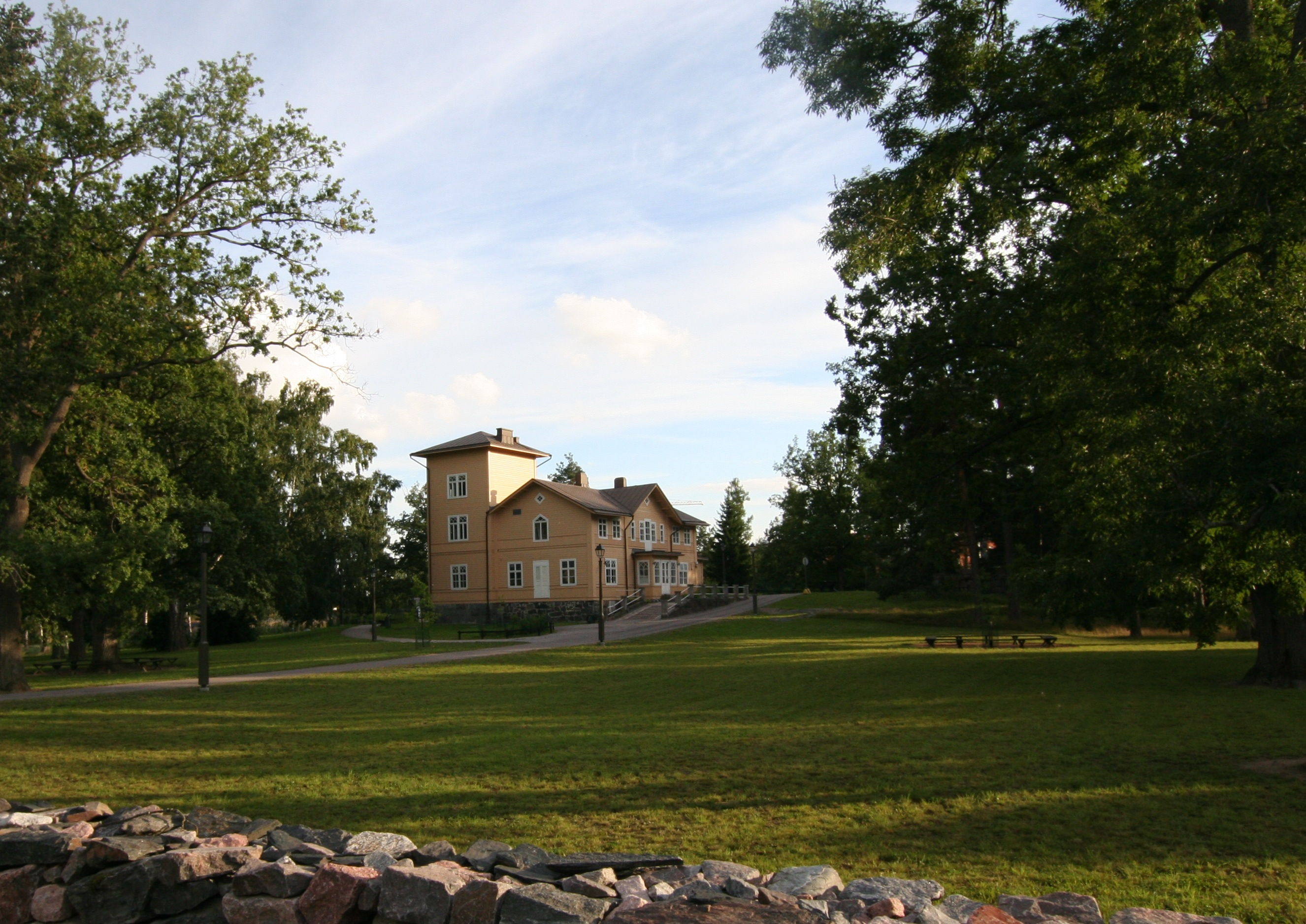 Nordsjö (Vuosaari) manor house